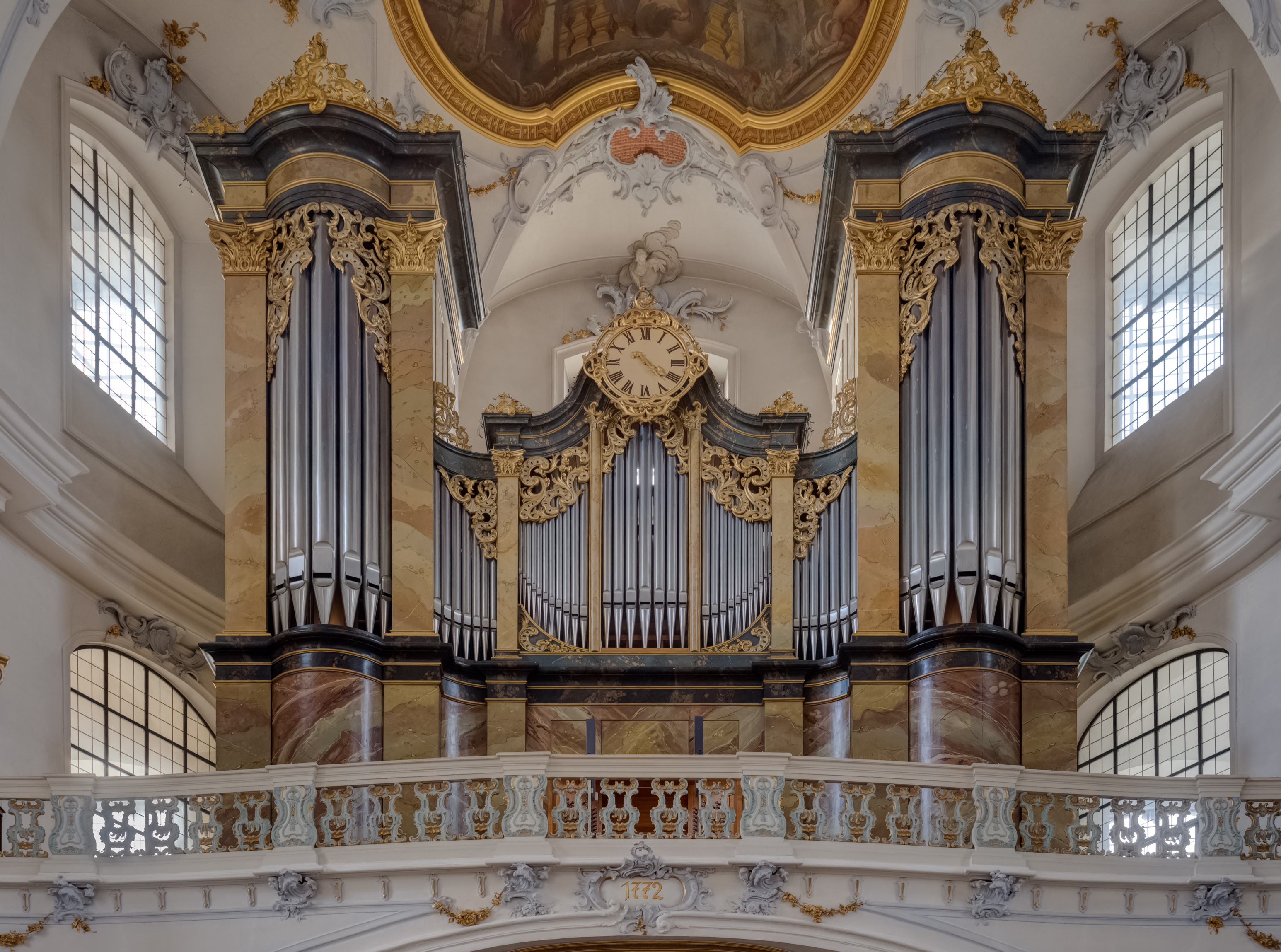 Pipe organ in the Basilica Vierzehnheiligen